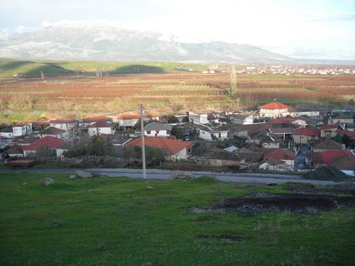 The village of Profitis Ilias in Pella Prefecture, Greece.